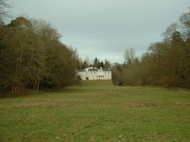 Dumcrieff. A fine looking house on the bank of Moffat Water.